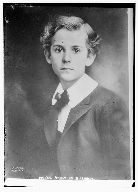 Prince Ernst of Hohenberg (1904-1954), was the second son of Archduke Franz Ferdinand of Austria. The photo is inscribed at bottom centre "Prince Ernst of Hohenberg", and at bottom left "H.C. Kosel, Wien, 1913."